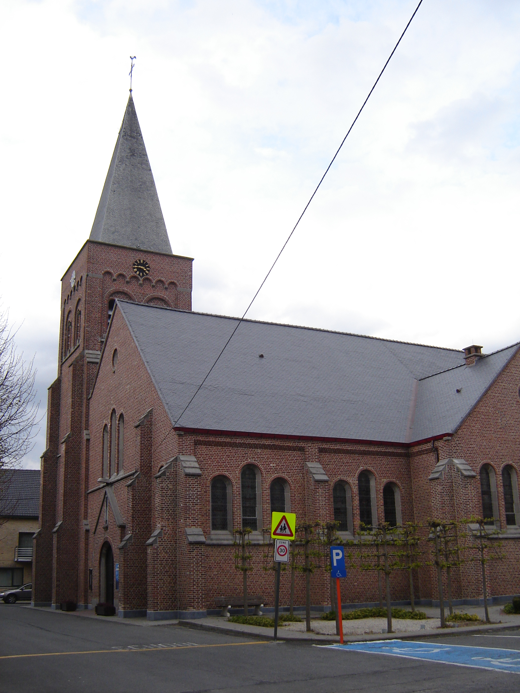 Church of Saint Teresa in Slypskapelle. Slypskapelle, Moorslede, West Flanders, Belgium